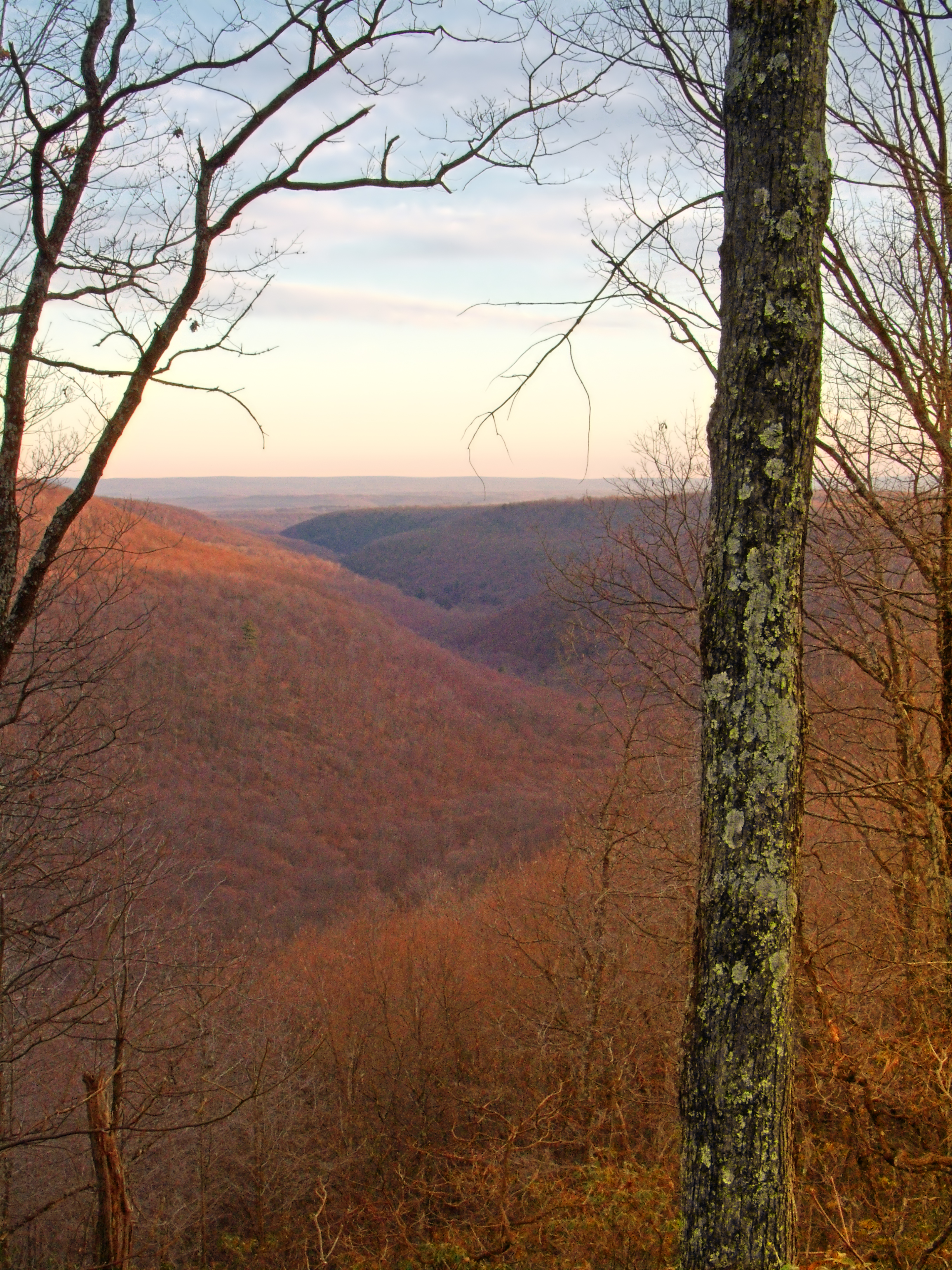 Late-day light, Mosquito Creek Gorge, Clearfield County, within the Quehanna Wild Area of Moshannon State Forest in Pennsylvania, USA.